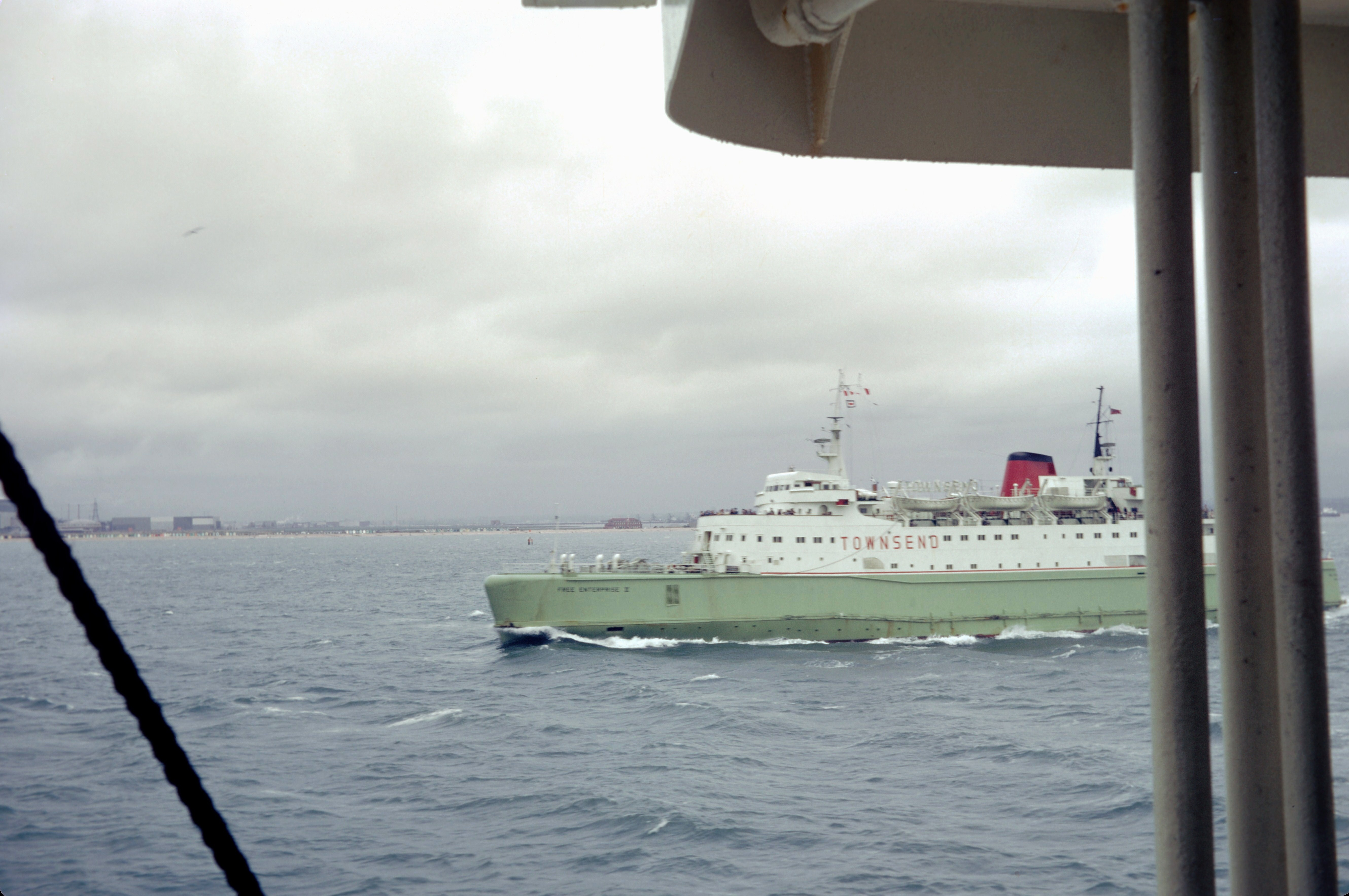 The Townsend Thoresen ferry MS Free Enterprise II leaving Southampton for Cherbourg. This ship was built in 1965 by ICH Holland Werf Gusto Yard. Routes served: Dover-Calais (1966-1968), Dover-Zeebrugge (1968-1970), Southampton-Cherbourg (1970-1974) for Townsend Thoresen. Then chartered to Sealink. Sold to the shipping company Navarma / Moby in 1982, sailing under the name of Moby Blu. Sold for scrap in 2004 and demolished in India.